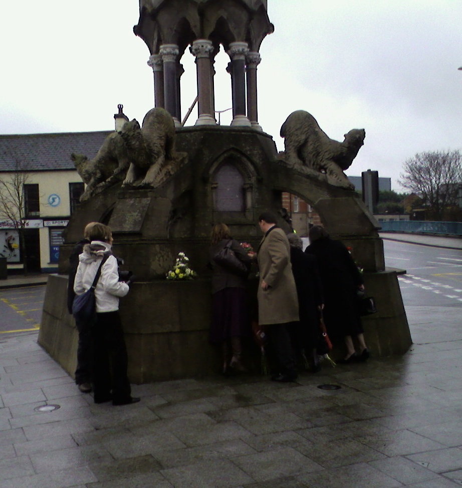 Laying flowers at the Crozier monument, Banbridge, Northern Ireland